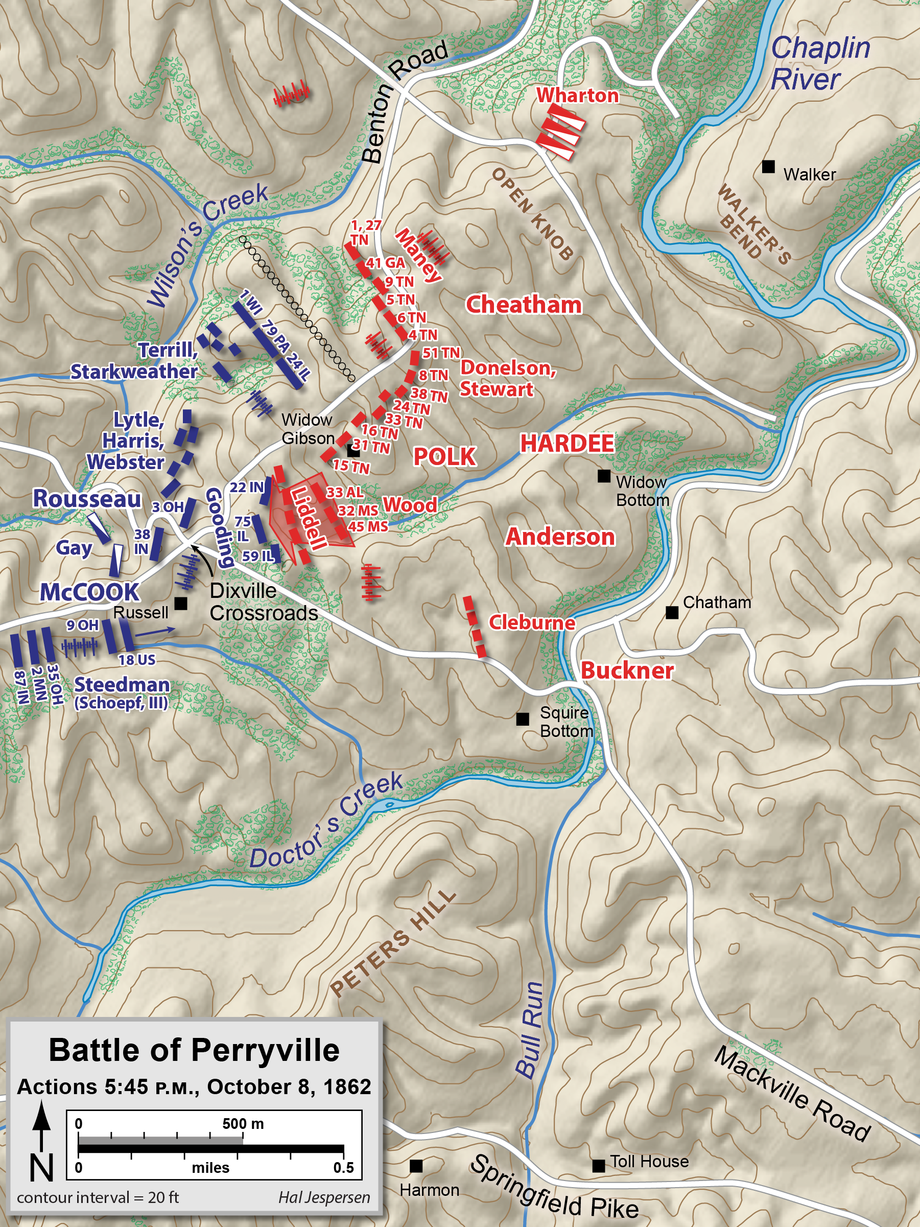 Map of the Battle of Perryville of the American Civil War